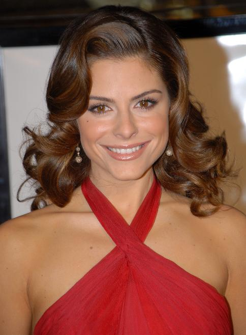 Maria Menounos at the premiere of "27 Dresses"